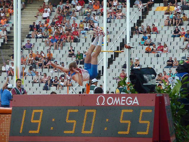 Aleksey Dmitrik during 2010 European Championships in Barcelona